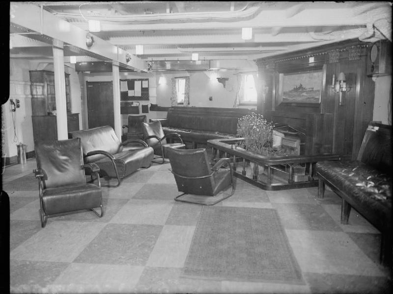 The Royal Navy during the Second World War A photograph of the empty ante-room of HMS KING GEORGE V at Scapa Flow showing some of the steel furniture.